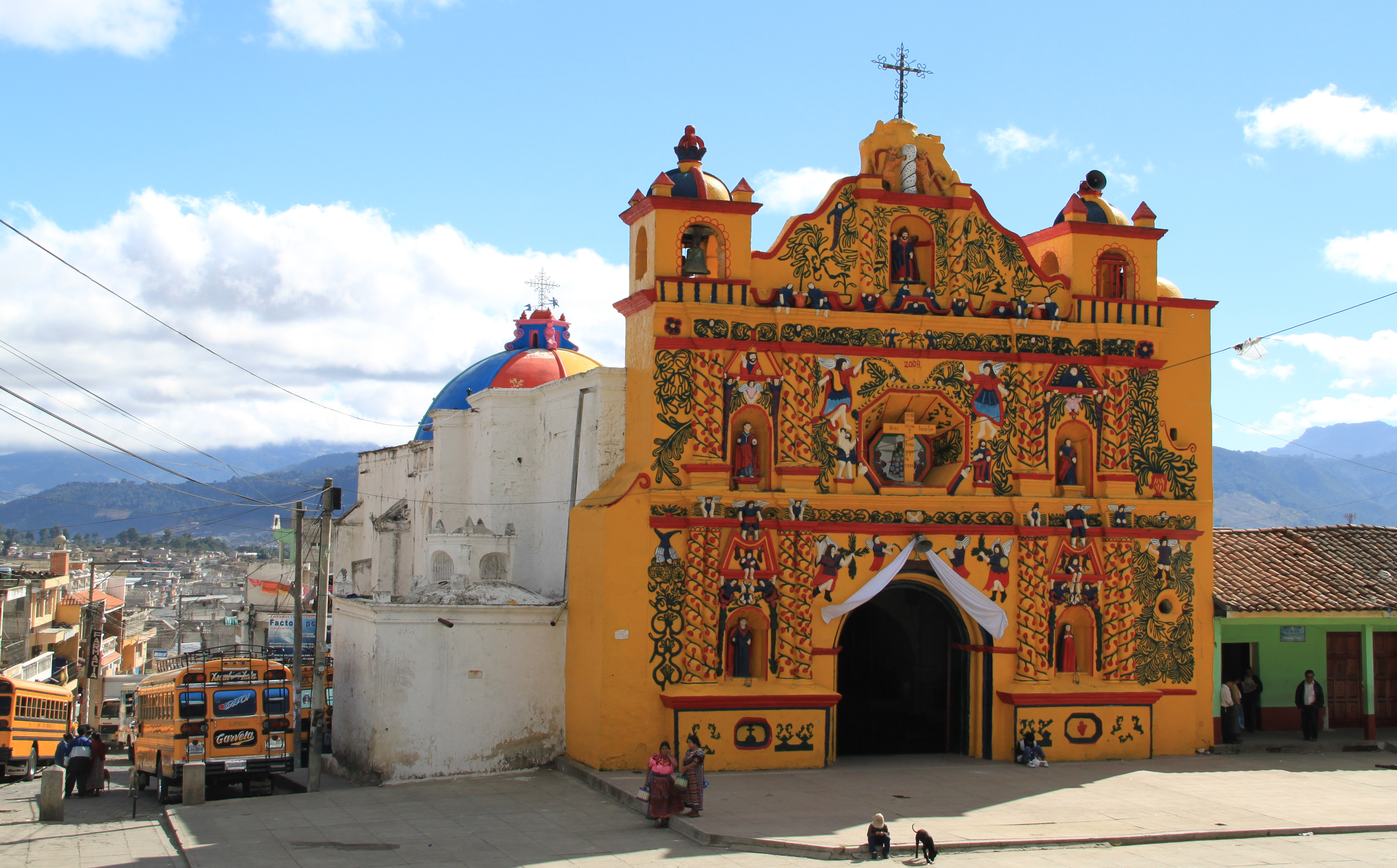 San Andres Xecul Church 2009 Totonicapan Guatemala